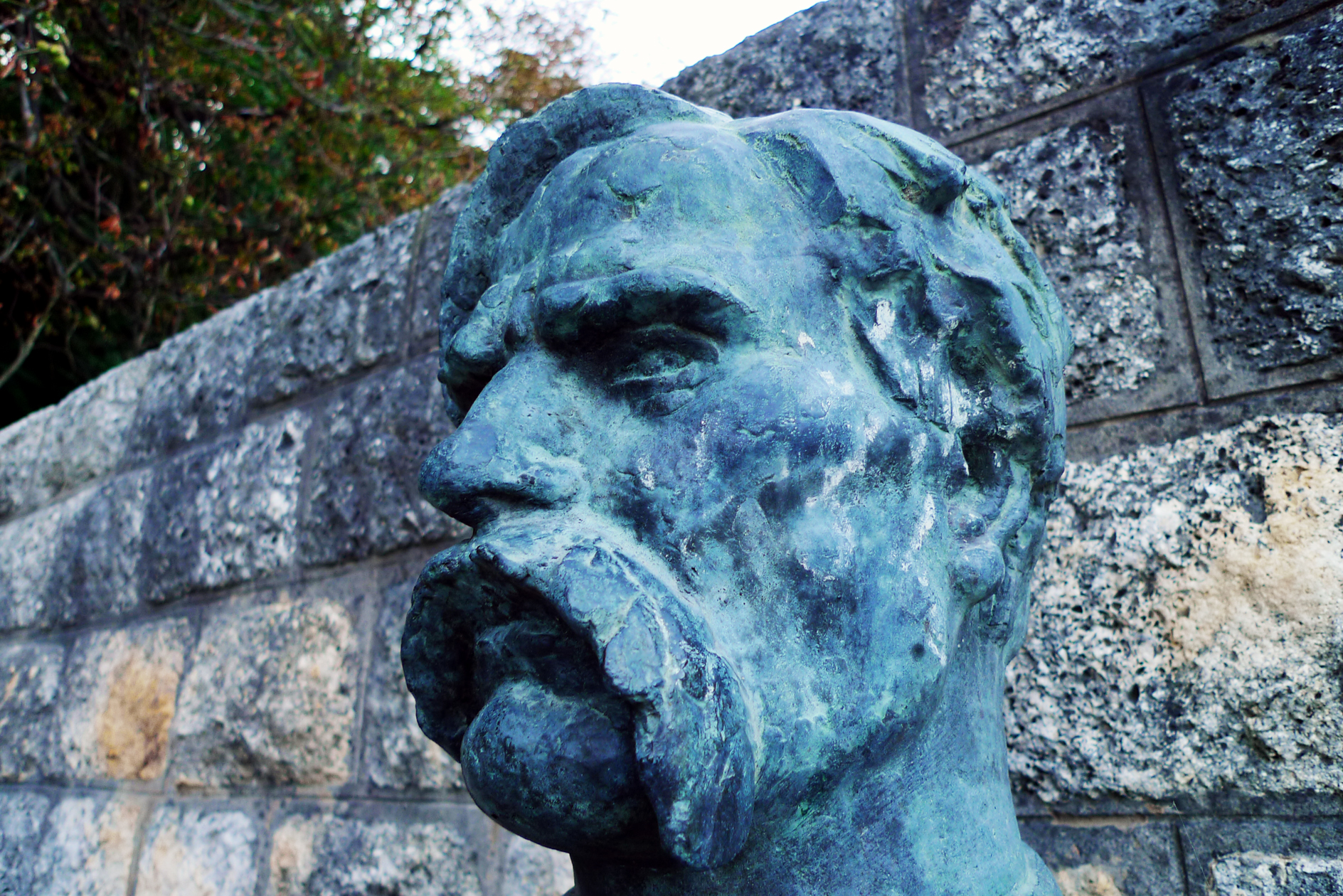 Matija Gubec statue head closeup. Part of the monument in Podsused, Croatia.